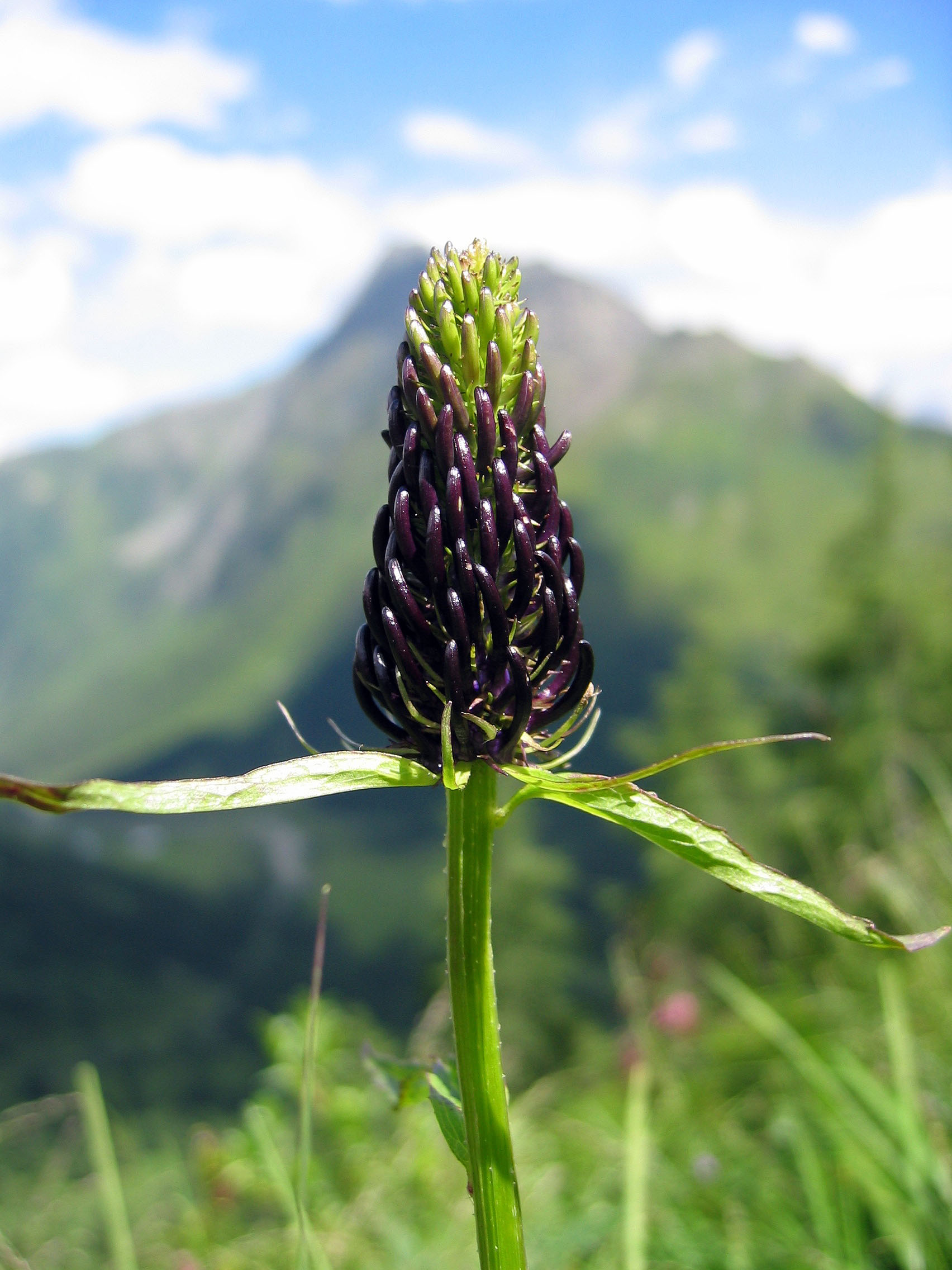 Phyteuma ovatum, Carnic Alps, Austria